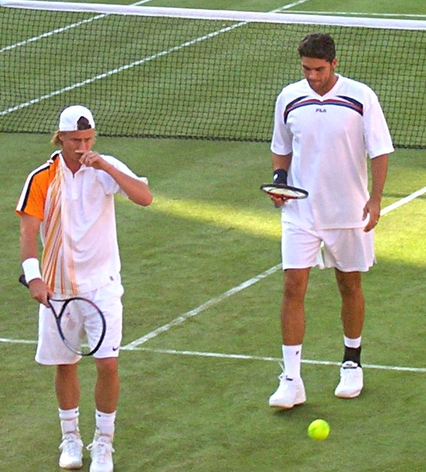 Lleyton Hewitt and Mark Philippoussis confer during a doubles match at the en:2005 Queen's Club Championships. Shermozle 21:57, Jun 8, 2005 (UTC)